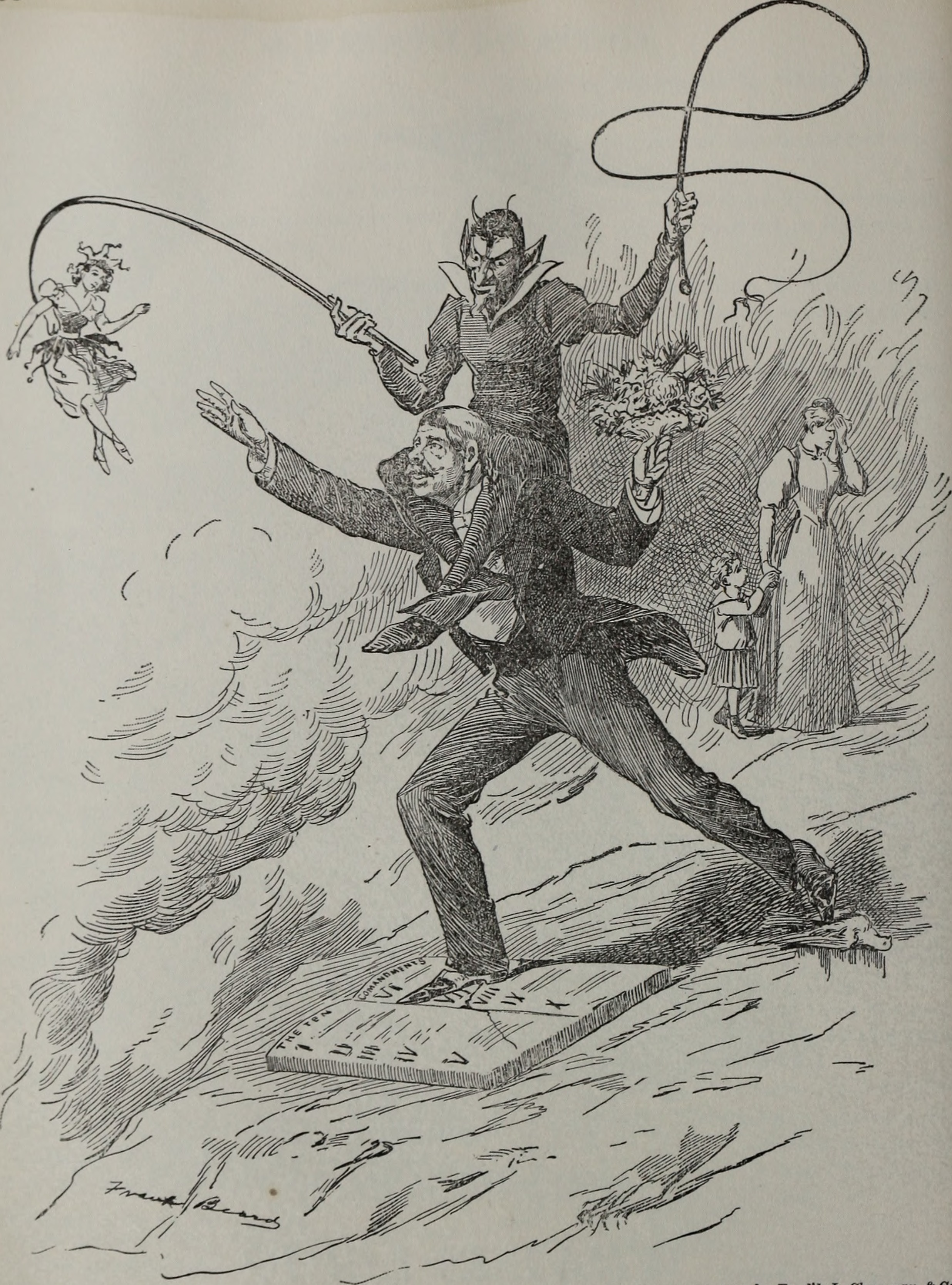 Title: "Blasts" from The Ram's Horn Year: 1902 (1900s) Authors: Subjects: Poetry Publisher: Chicago, The Ram's Horn Co. Text Appearing Before Image: Copyright, 1896, by Fredk L. Chapman & Co, WHAT IS LEFT? 108 Blasts From The Rams Horn Text Appearing After Image: Copyright, 1896, by Fredk L. Chapman & Co. A HARD MASTER. «« Whoso committeth sin is the servant of sin. Blasts From The Rams Horn 109 GRAPES FROM CANAAN. aCB*.